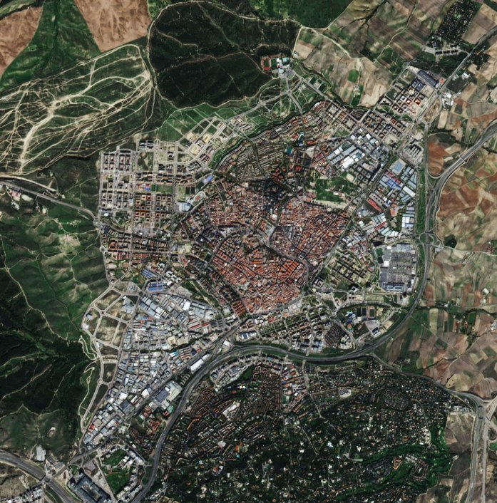 The diverse landscapes of the autonomous Community of Madrid in the heart of Spain are evident in this week’s image. The community and country’s capital city is visible near the centre of the image. Zooming in, we can see the Buen Retiro park just east of the city centre with its large, artificial pond. About 3.5 km due north sits the Santiago Bernabéu football stadium. Southeast of the stadium we can see another circular structure: the Las Ventas bullfighting ring. In the upper left corner of the image is the El Pardo mountain and protected natural park, which is popular for mountain biking. The other areas surrounding Madrid are blanketed with agricultural structures. East of the city are large fields along the Jarama river, and more areas of agriculture appearing brown further east still. This image, also featured on theEarth from Space video programme, was taken by the Sentinel-2A satellite on 16 November 2015. Launched in June 2015, Sentinel-2 can map changes in land cover such as forest, crops, grassland, water surfaces and artificial cover like roads and buildings in cities. Early results from the mission on mapping changes in land cover are expected to be presented at the upcoming Living Planet Symposium, held in Prague in May. The event brings together scientists and users to present their latest findings on Earth’s environment and climate derived from satellite data.